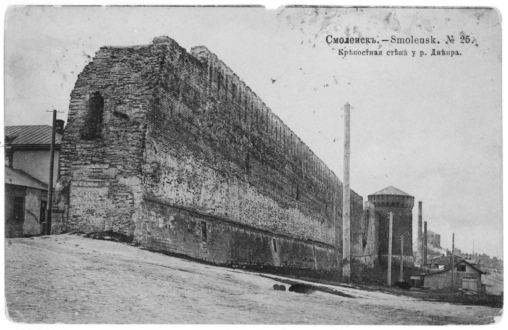 Smolensk fortress wall in the Dnieper River. In the background - Kostyrevskaya tower.